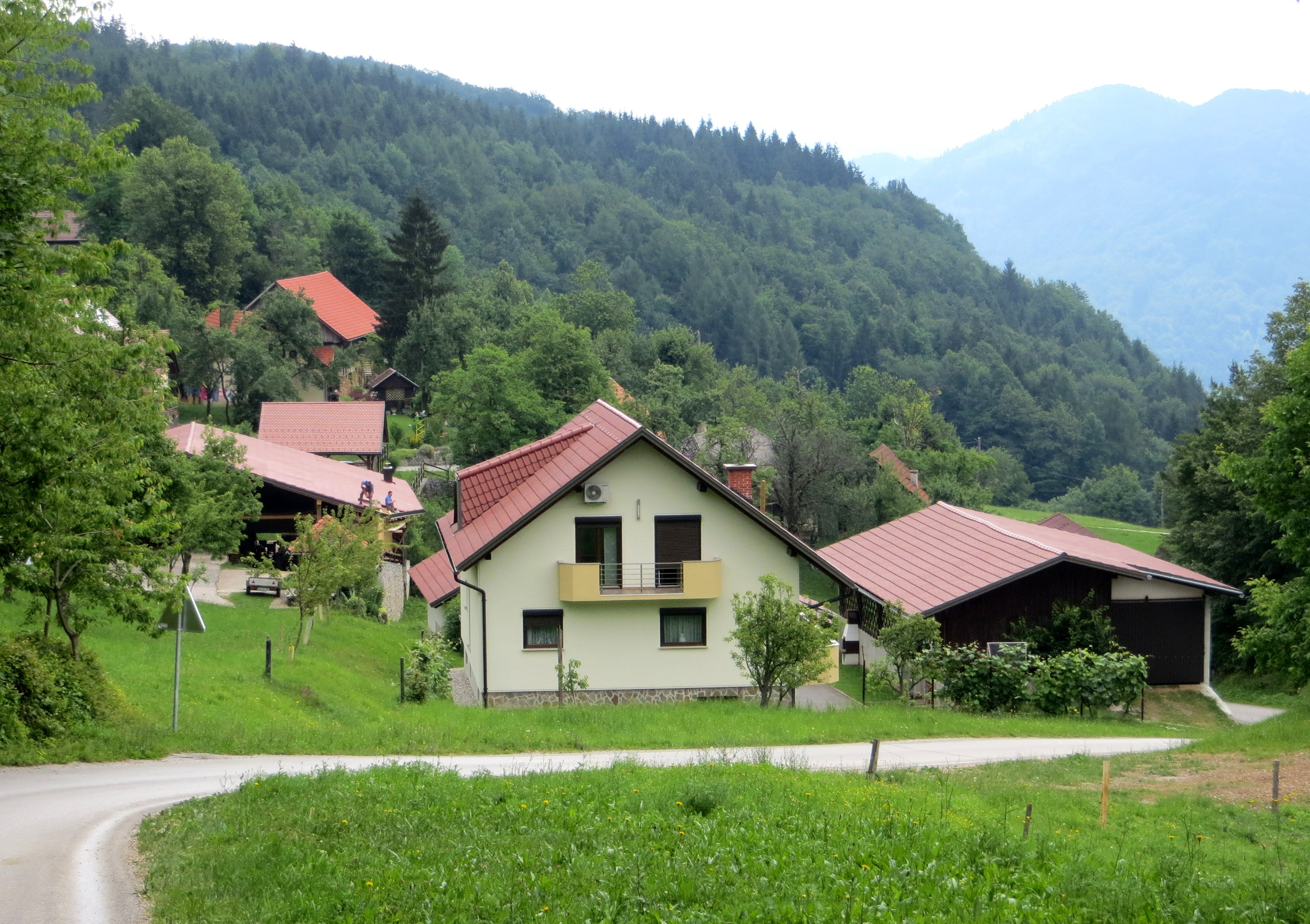 The hamlet of Drobež in Jeronim, Municipality of Vransko, Slovenia